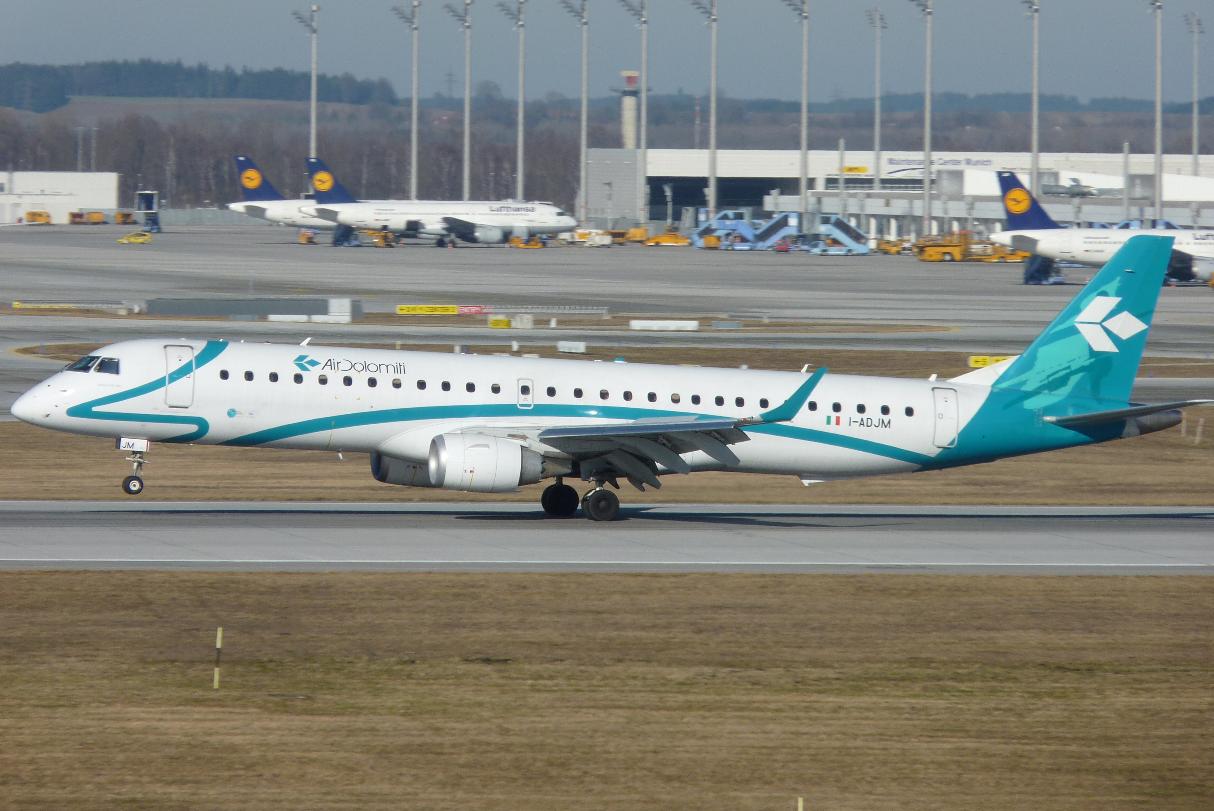 Air Dolomiti Embraer ERJ-195LR Registration: I-ADJM at munich airport runway 26R